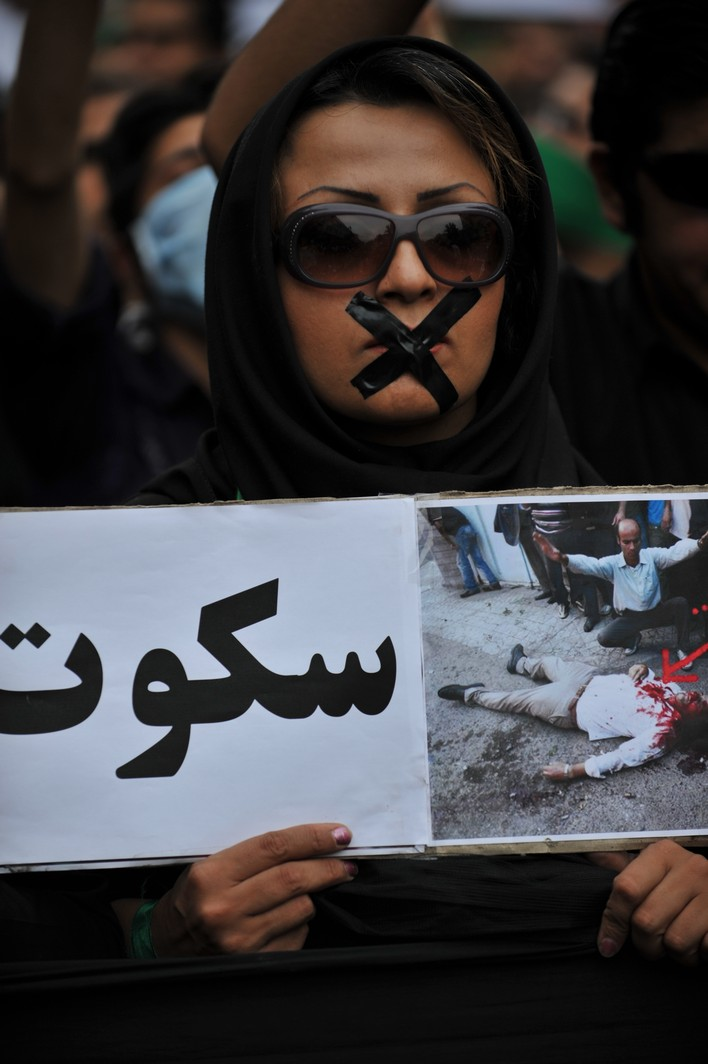 Silence.... Silent demonstration in Tehran on June 17 - part of the 2009 Iranian election protests